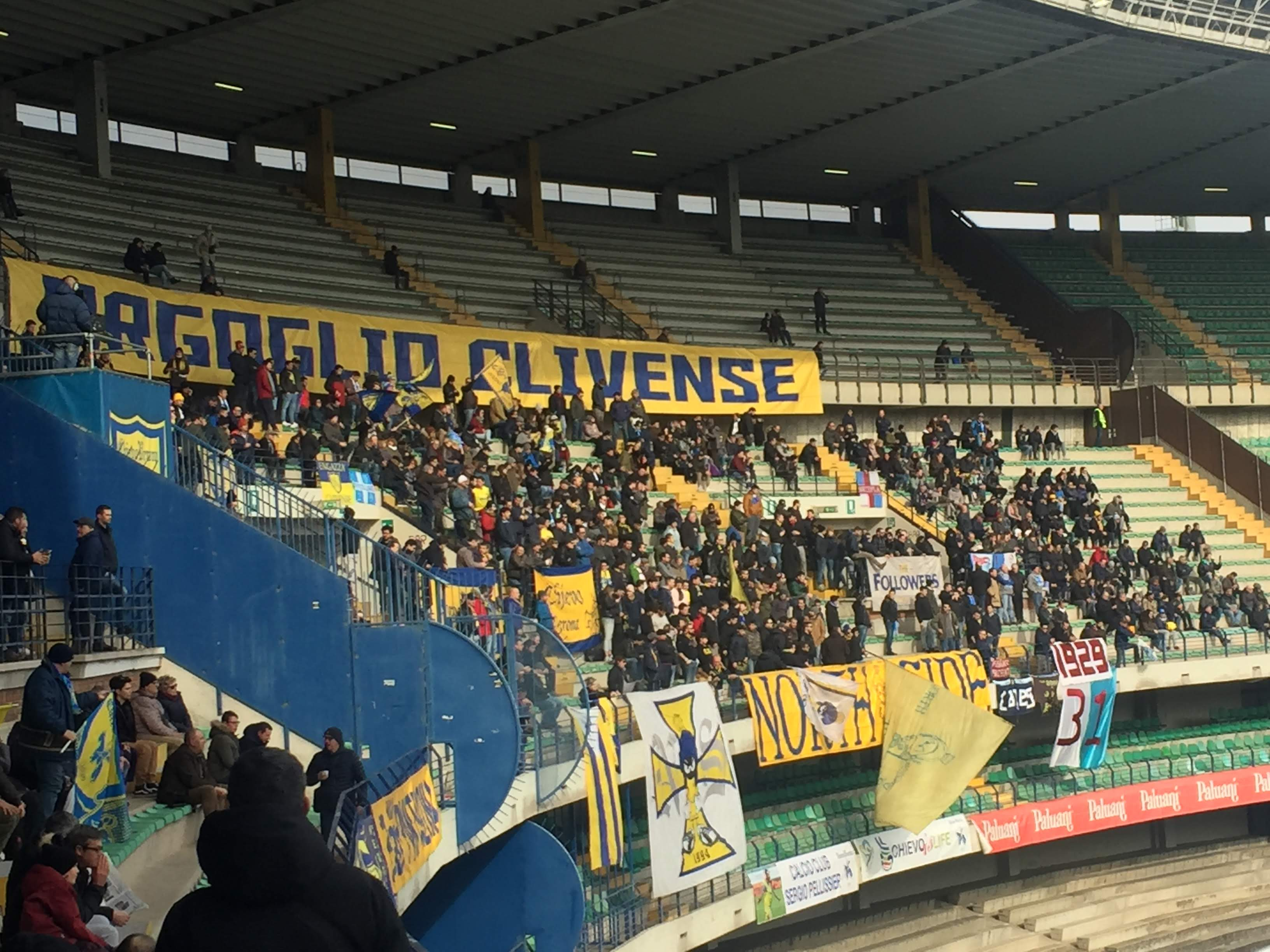 North Side ultras in the "Marcantonio Bentegodi" Stadium during the match between A.C. ChievoVerona and Genoa C.F.C. (0-0), Matchday 25 of the Italian League 2018–19 Serie A, February 24, 2019.